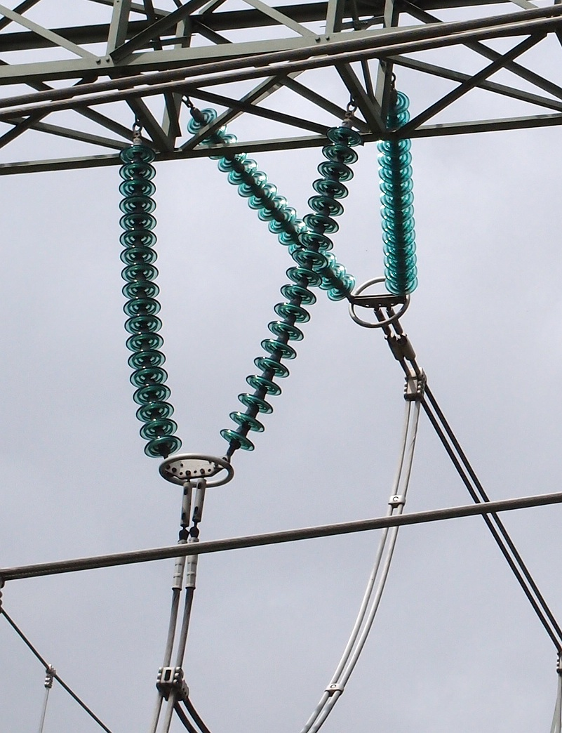 Cap-and-pin insulators at the Hoheneck 380 kV power switching station, Germany